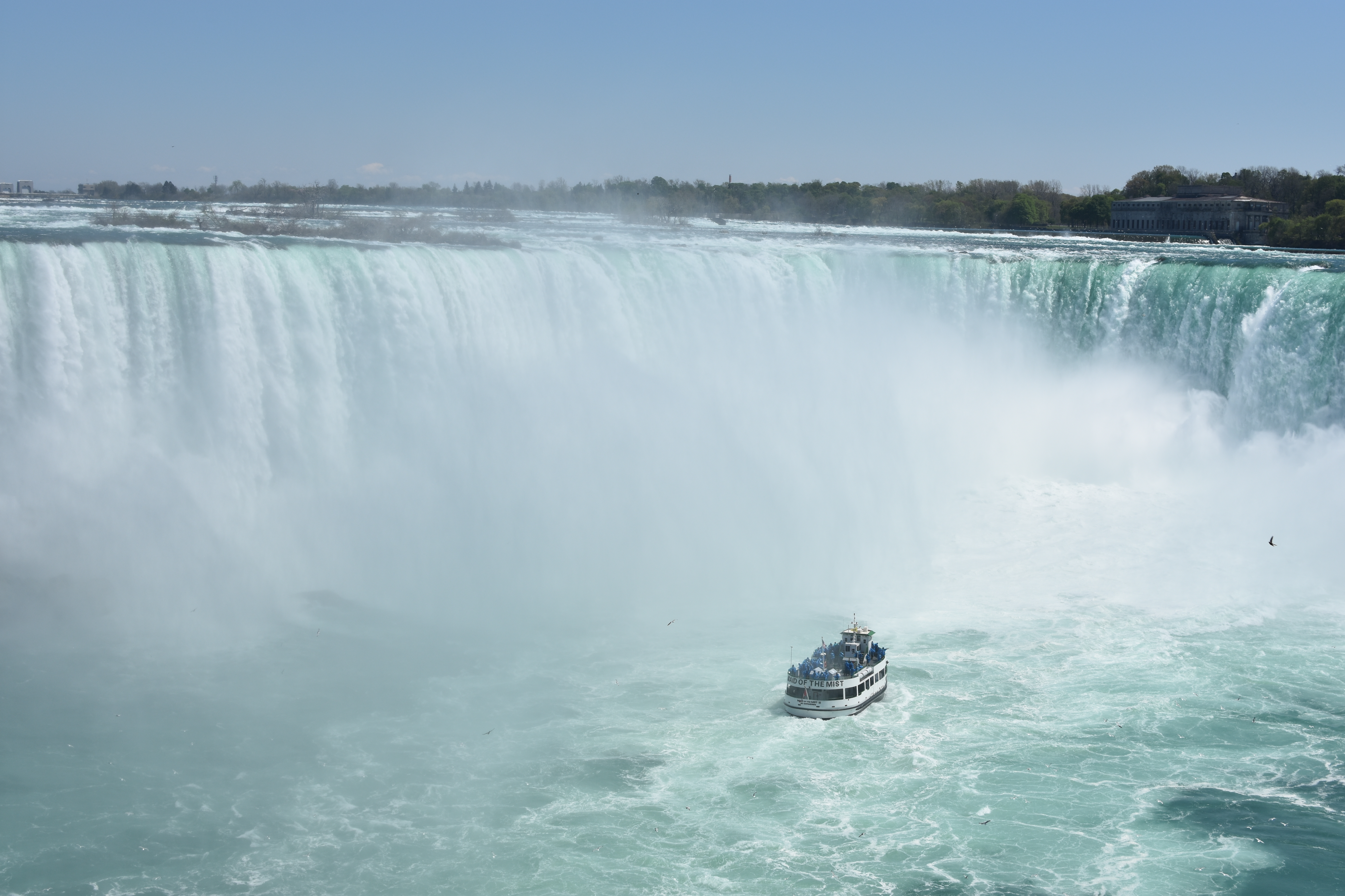 Niagara Falls, viewed from the U.S. side.